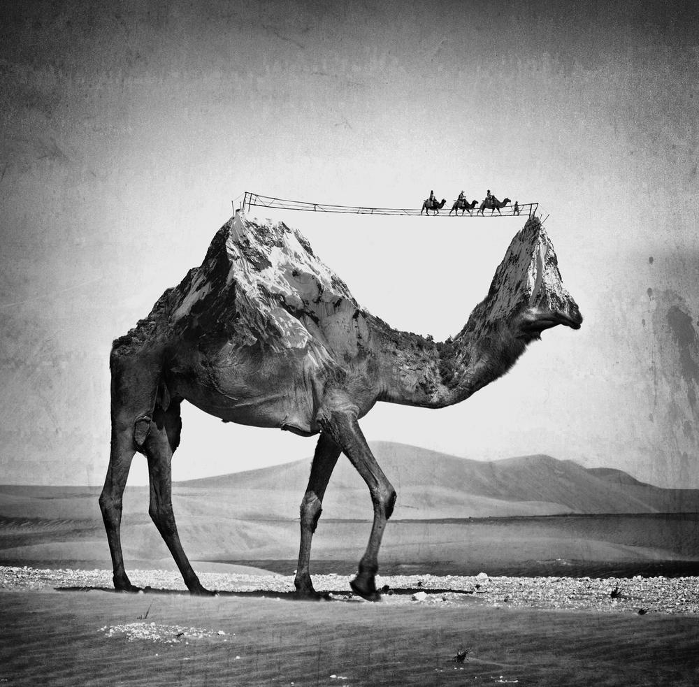 A black and white surreal photo-manipulation